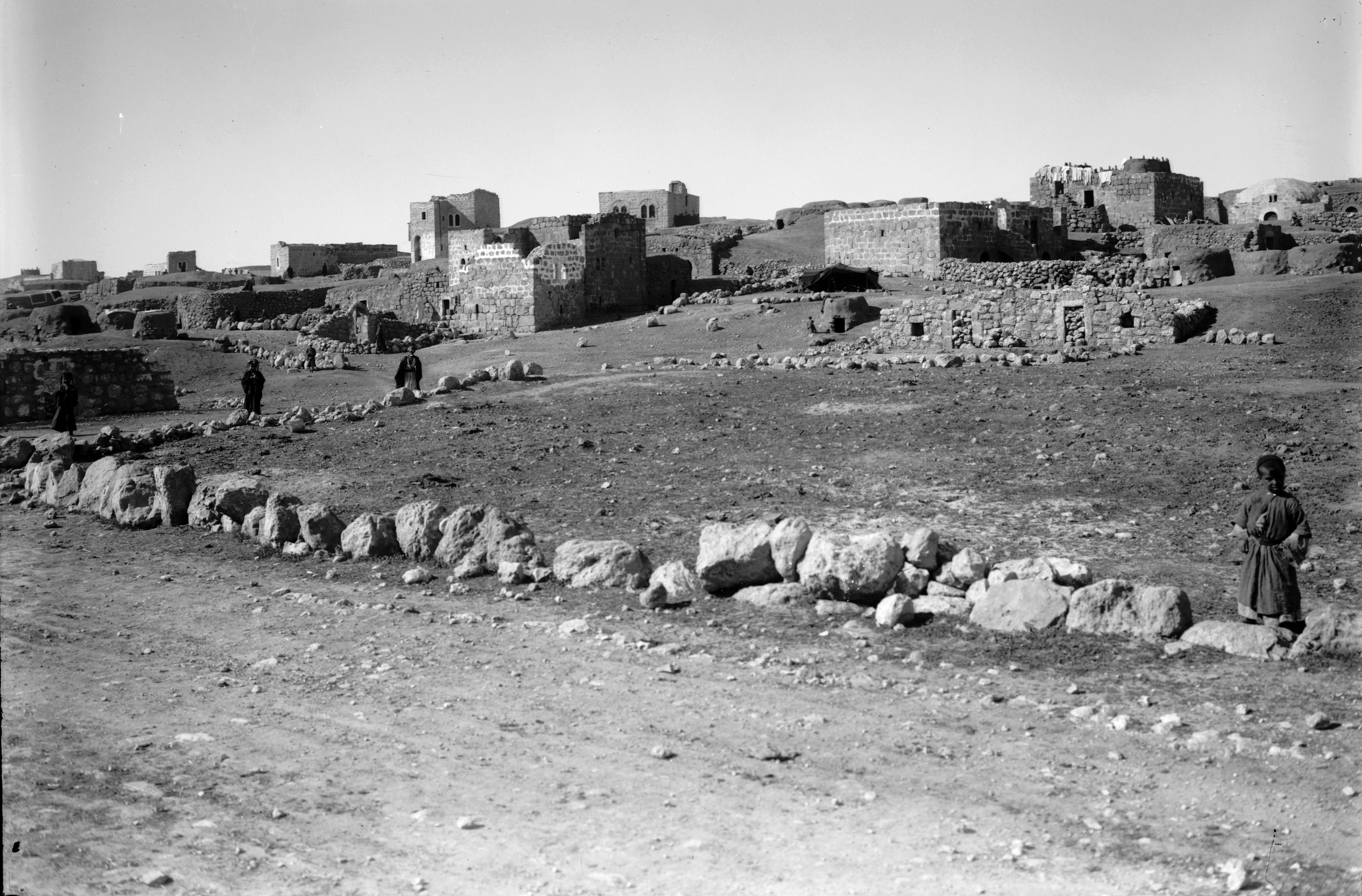 Southern Palestine. Dahariyeh village, Debir.